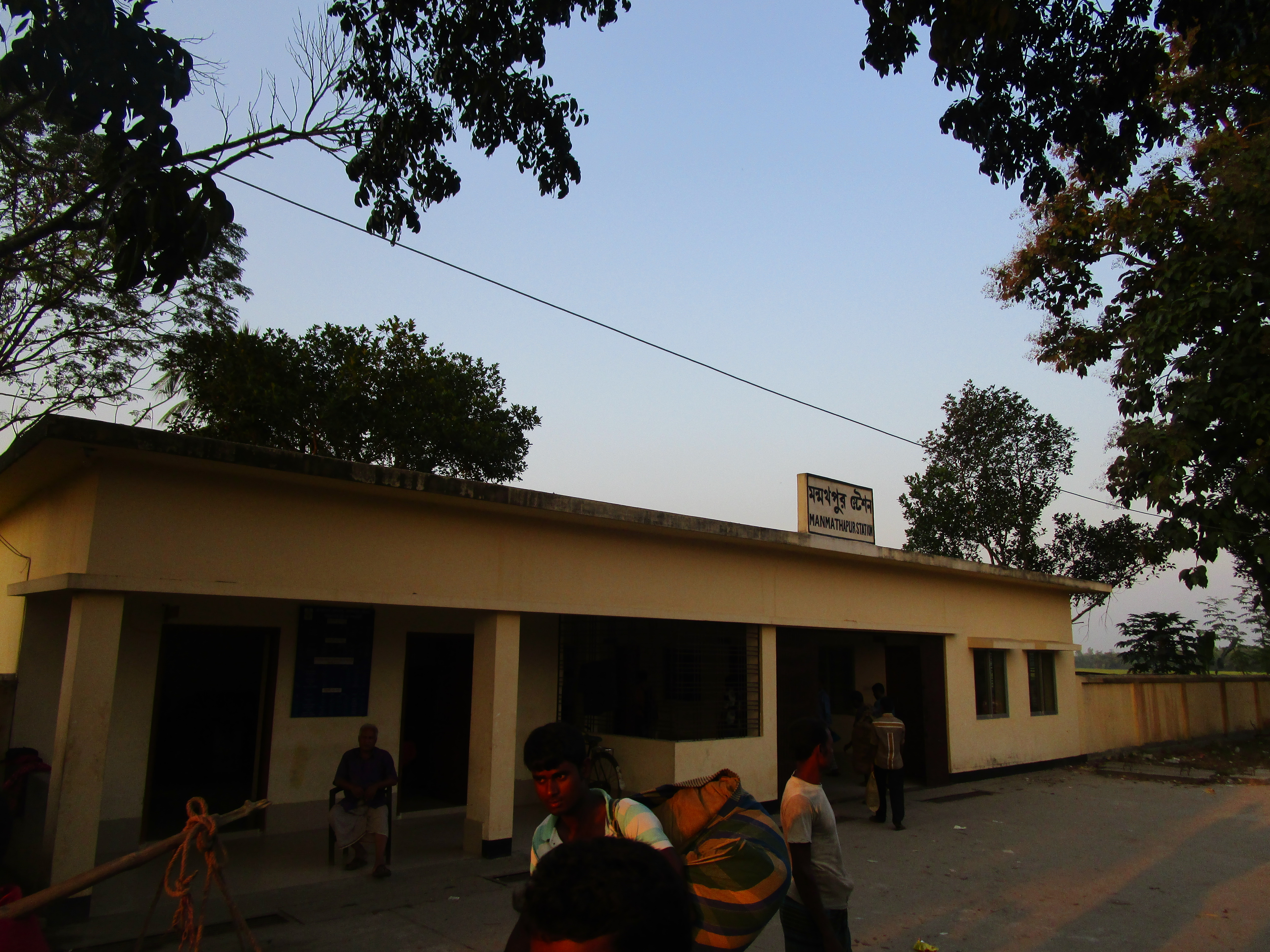 Monmothpur Railway Station building at Parbatipur Upazila.